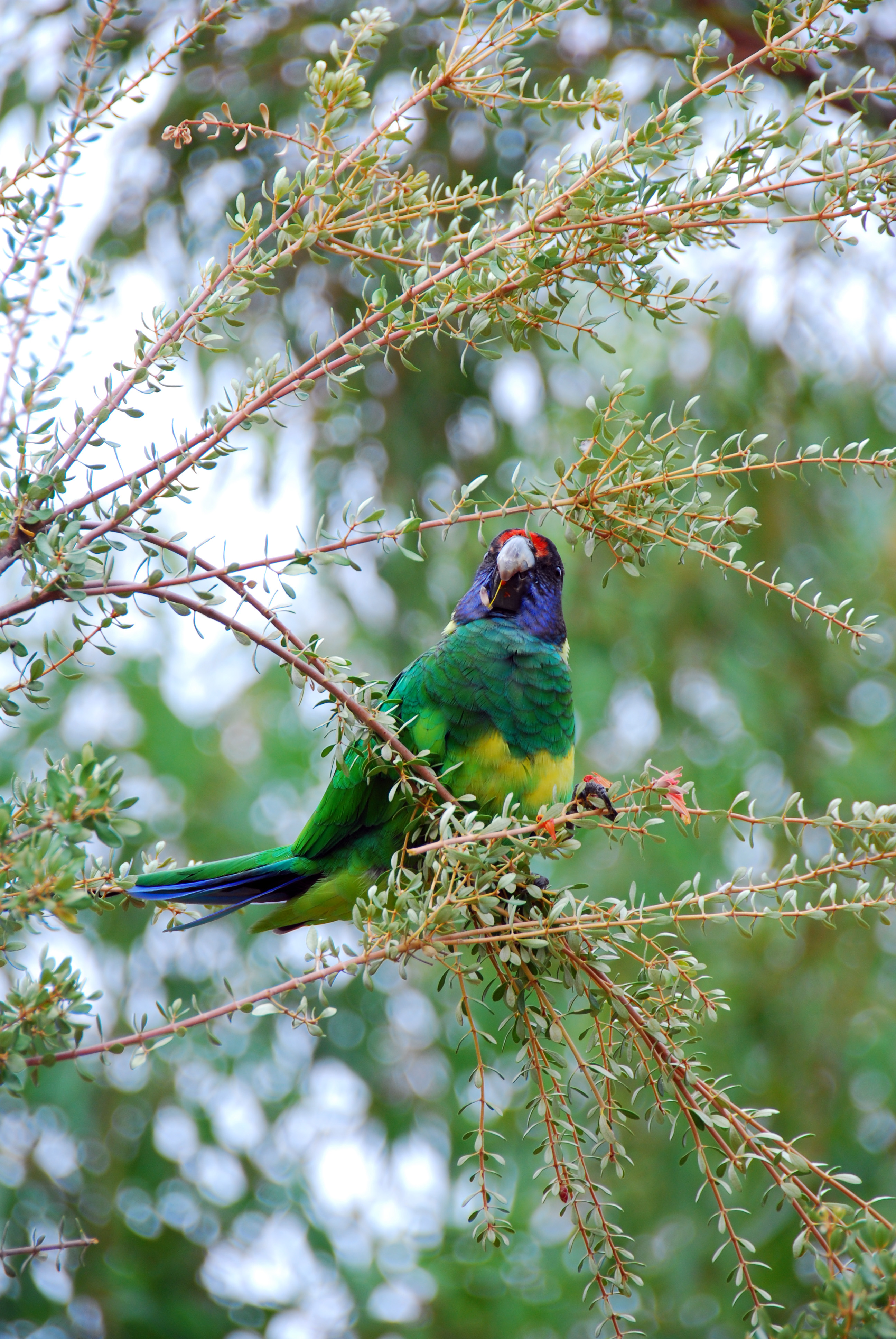 Australian Ringneck (Barnardius zonarius) in Yanchep National Park, Western Australia.